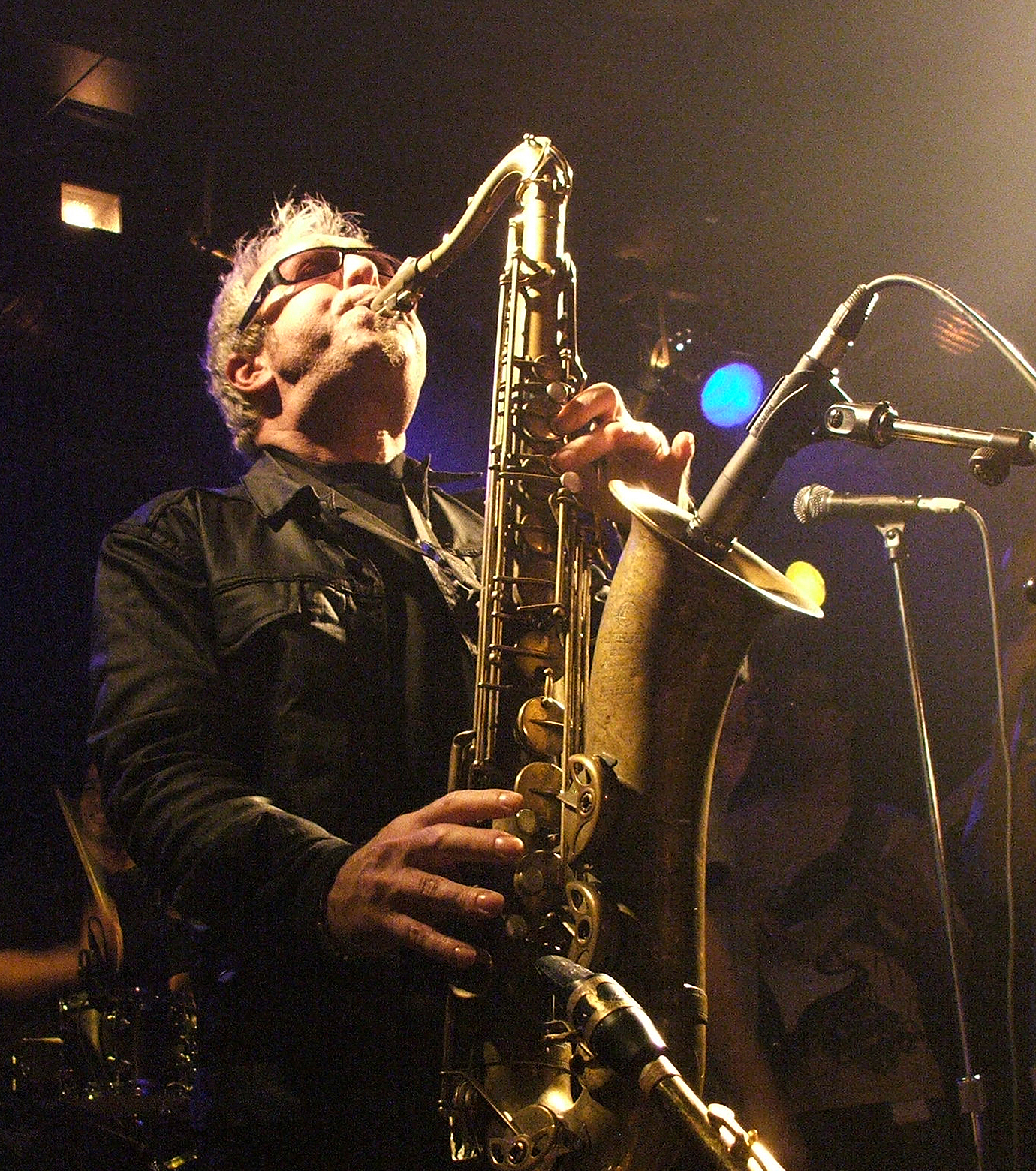 Mars Williams performing live at Double Door in Chicago with Liquid Soul on 1/1/11